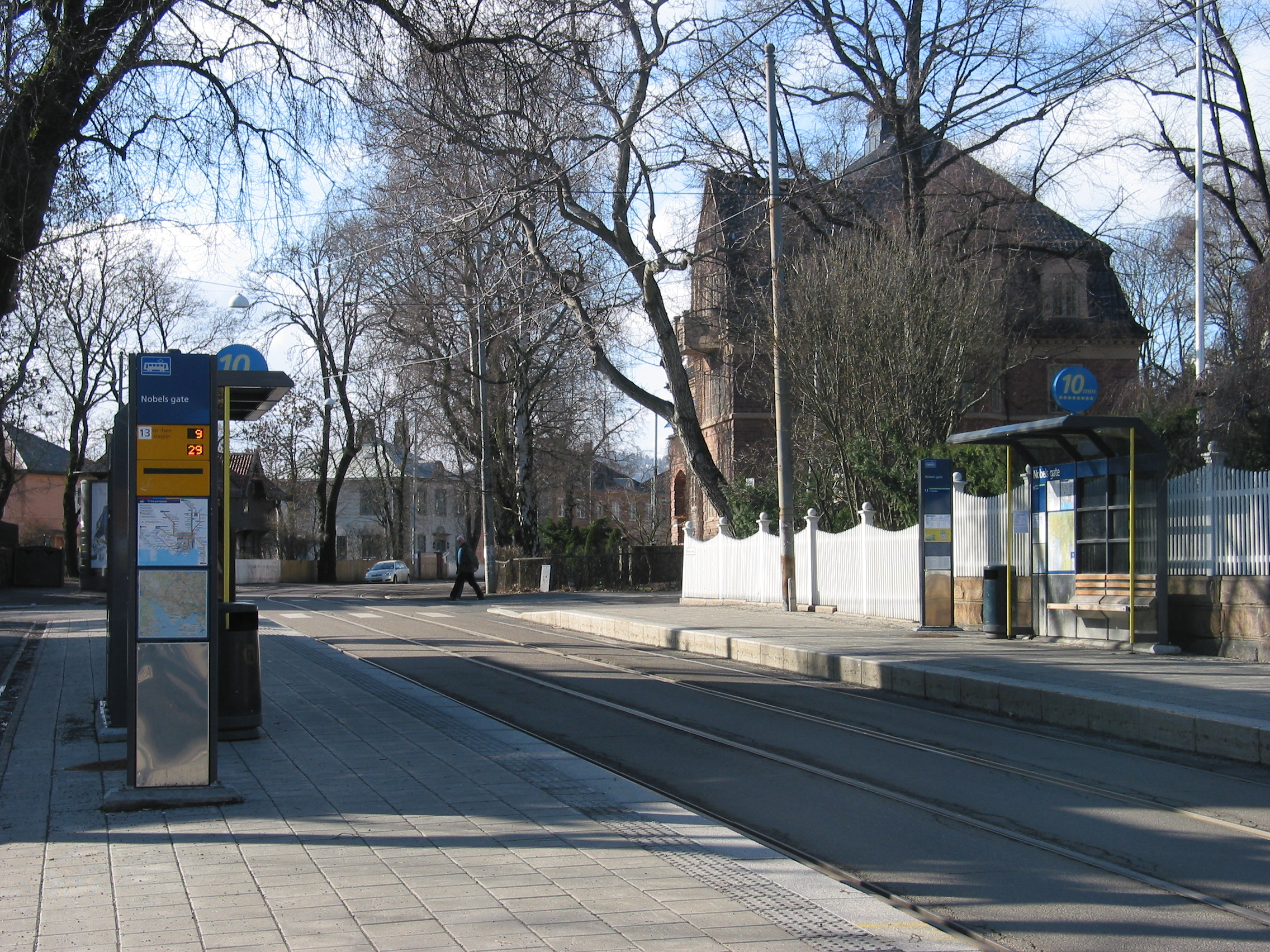 Nobels gate station in Oslo, Norway. Looking west. Rather shadowy.